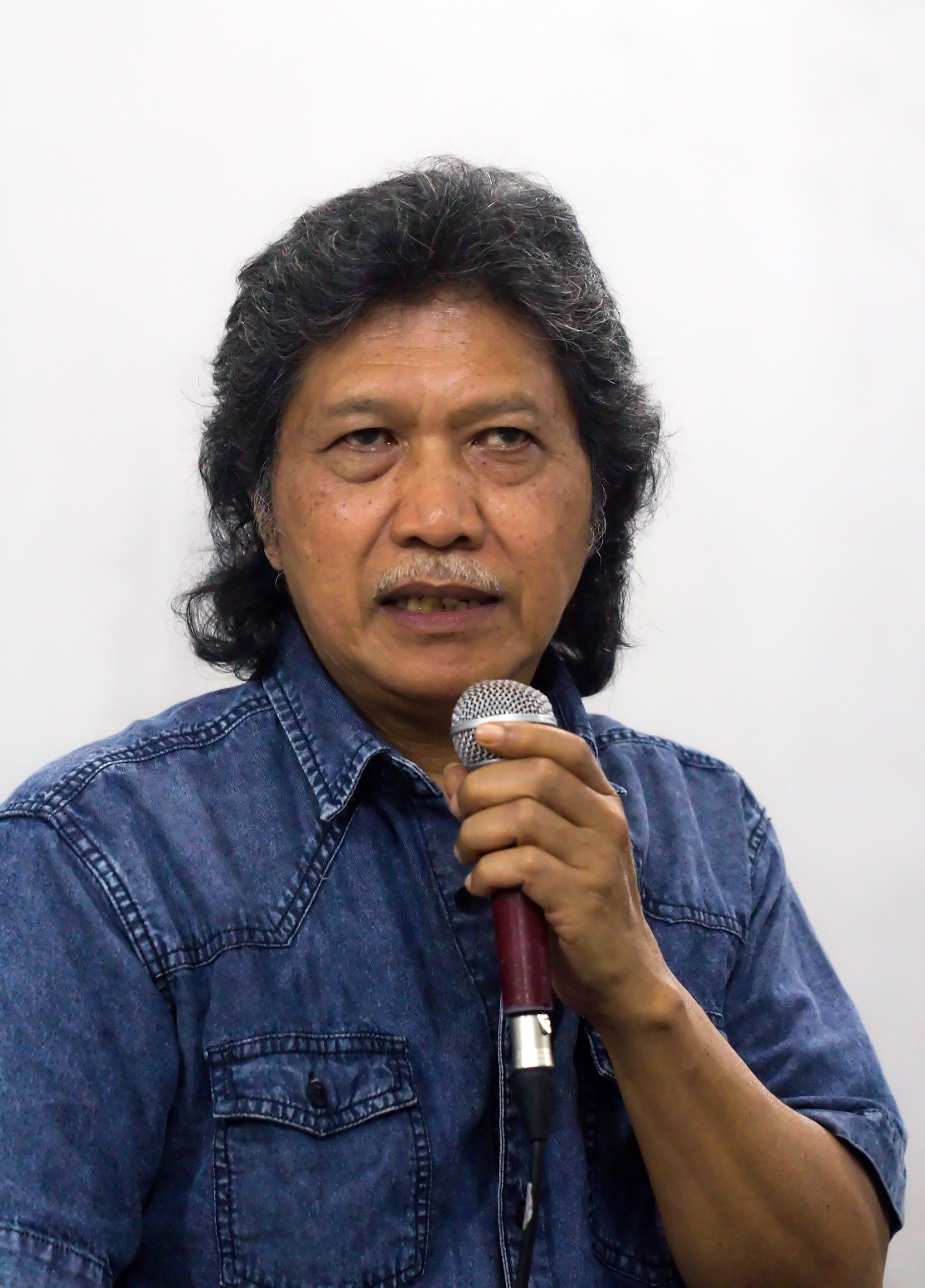 Indonesian poet Emha Ainun Nadjib (also known as Cak Nun) speaking at the slametan for Sitok Srengenge's new poetry collection Ereignis dan Cinta yang Keras Kepala, 2015-08-22